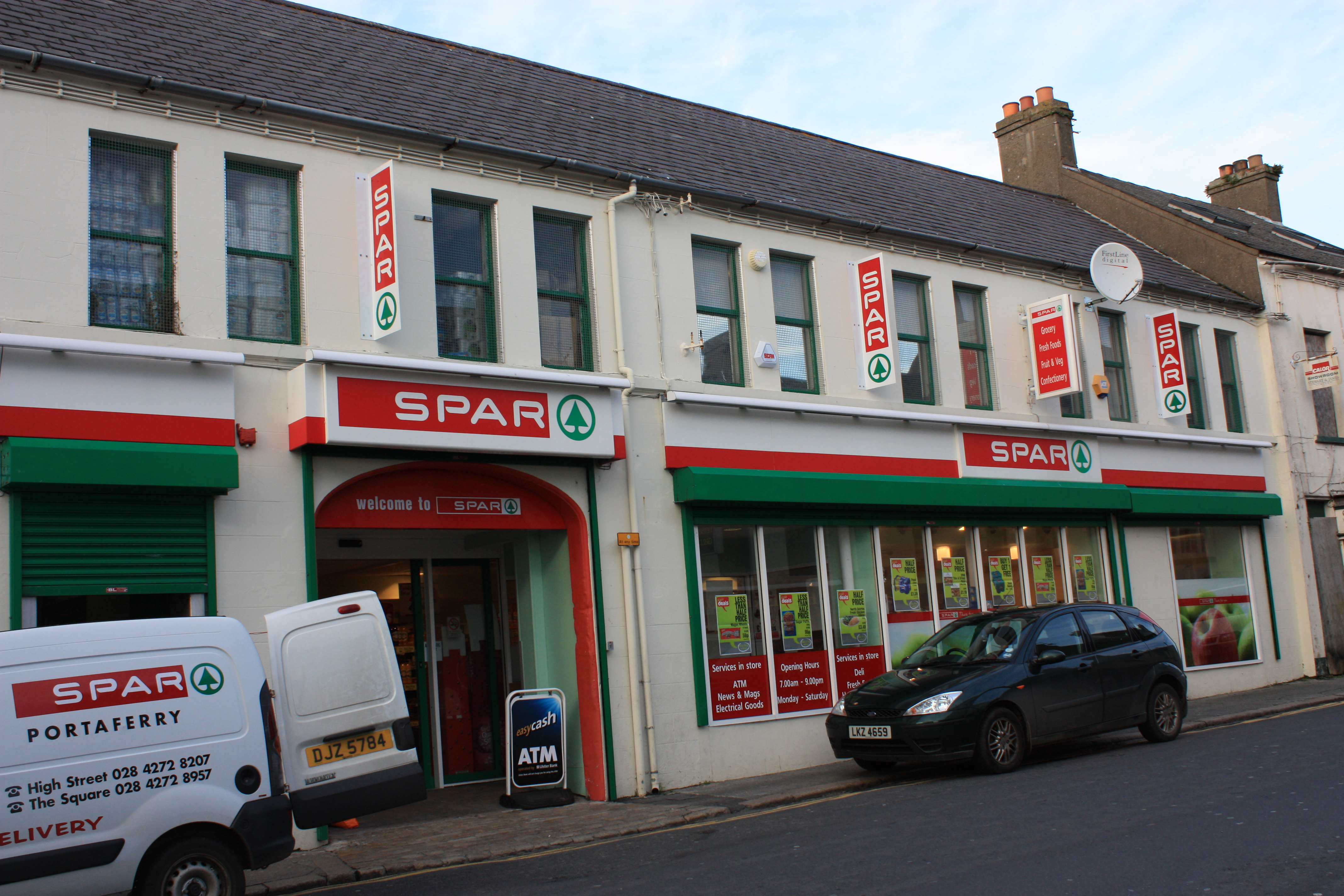 Spar Shop, High Street, Portaferry, County Down, Northern Ireland, October 2009